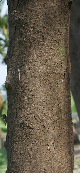 Neem Azadirachta indica in Kolkata, West Bengal, India.